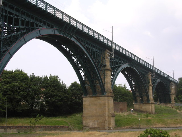 Railway viaduct, Willington. This picture was taken on first day of cycle ride "Coasts and Castles" from Newcastle to Edinburgh